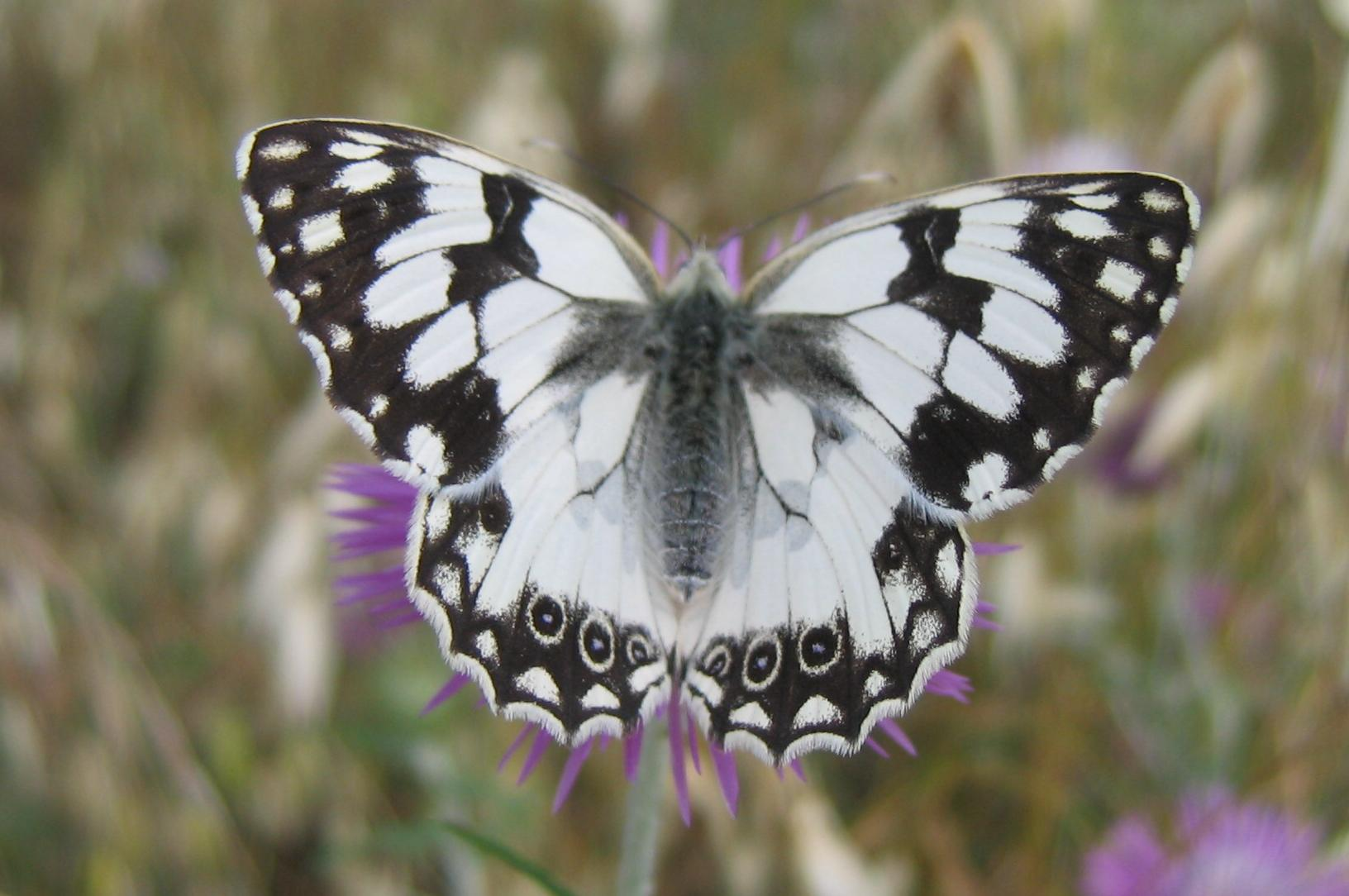 Melanargia lachesis (Hübner, 1790), Nymphalidae, Lepidoptera, near Etang de St. Nazaire, Roussillon, France